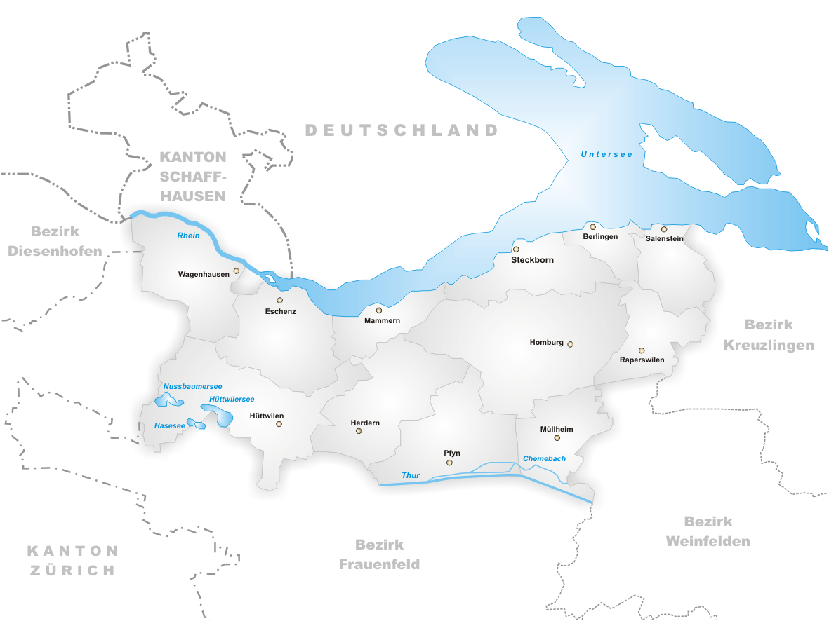 Municipalities of District Steckborn